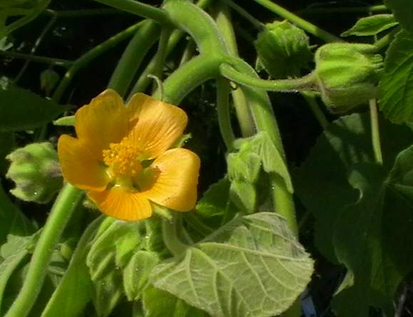 Brno Komín,Abutilon theophrasti, near Netopýrky